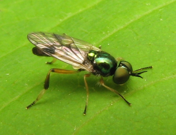 Soldier fly, Actina viridis. New River Gorge Bridge, Fayette County, West Virginia, USA.